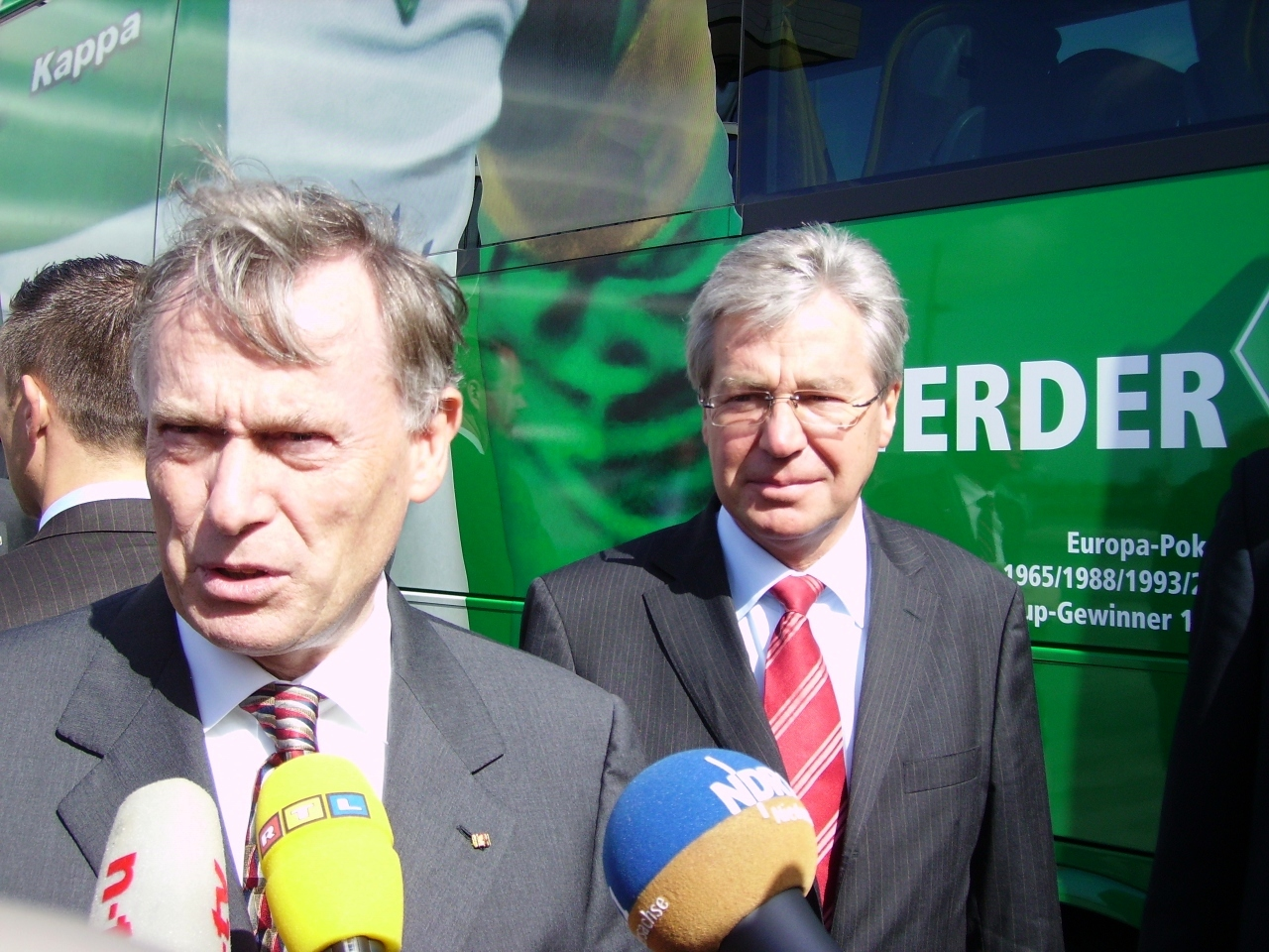 The German President Horst Köhler (left) and the President of the Senate of Bremen Jens Böhrnsen (right) during a visit to Bremerhaven on September 10th, 2007 - Please do not use this picture for advertisement!